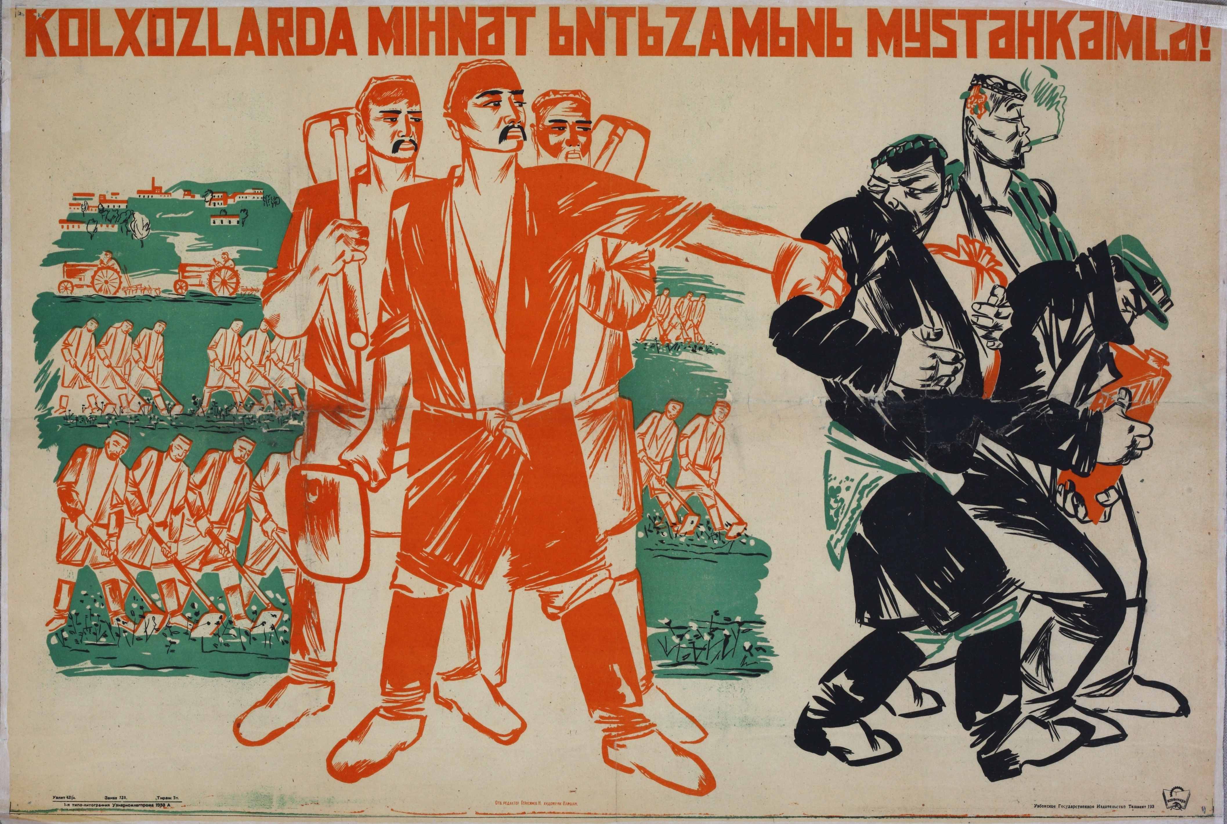 “Strengthen working discipline in collective farms” – Uzbek, Tashkent, 1933 (Mardjani Foundation)